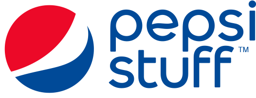 Pepsi Stuff logo